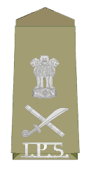 Insignia of Director General of Police